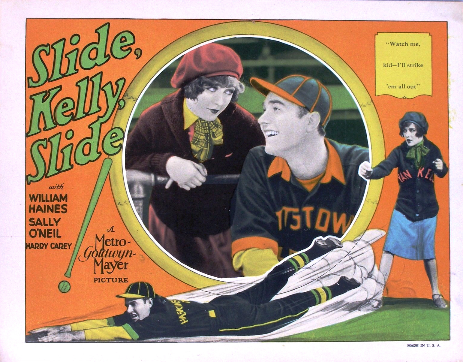 Lobby card for the American comedy film Slide, Kelly, Slide (1927). There are no copyright marks on the item. At lower right is Made in USA.